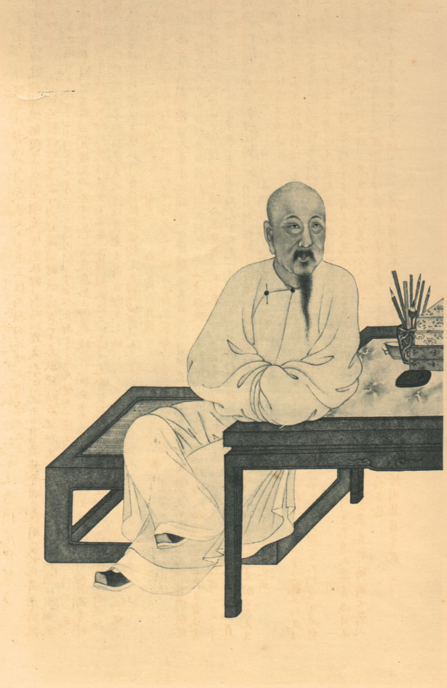 Wu Zhizhen, poet of the Qing Dynasty.